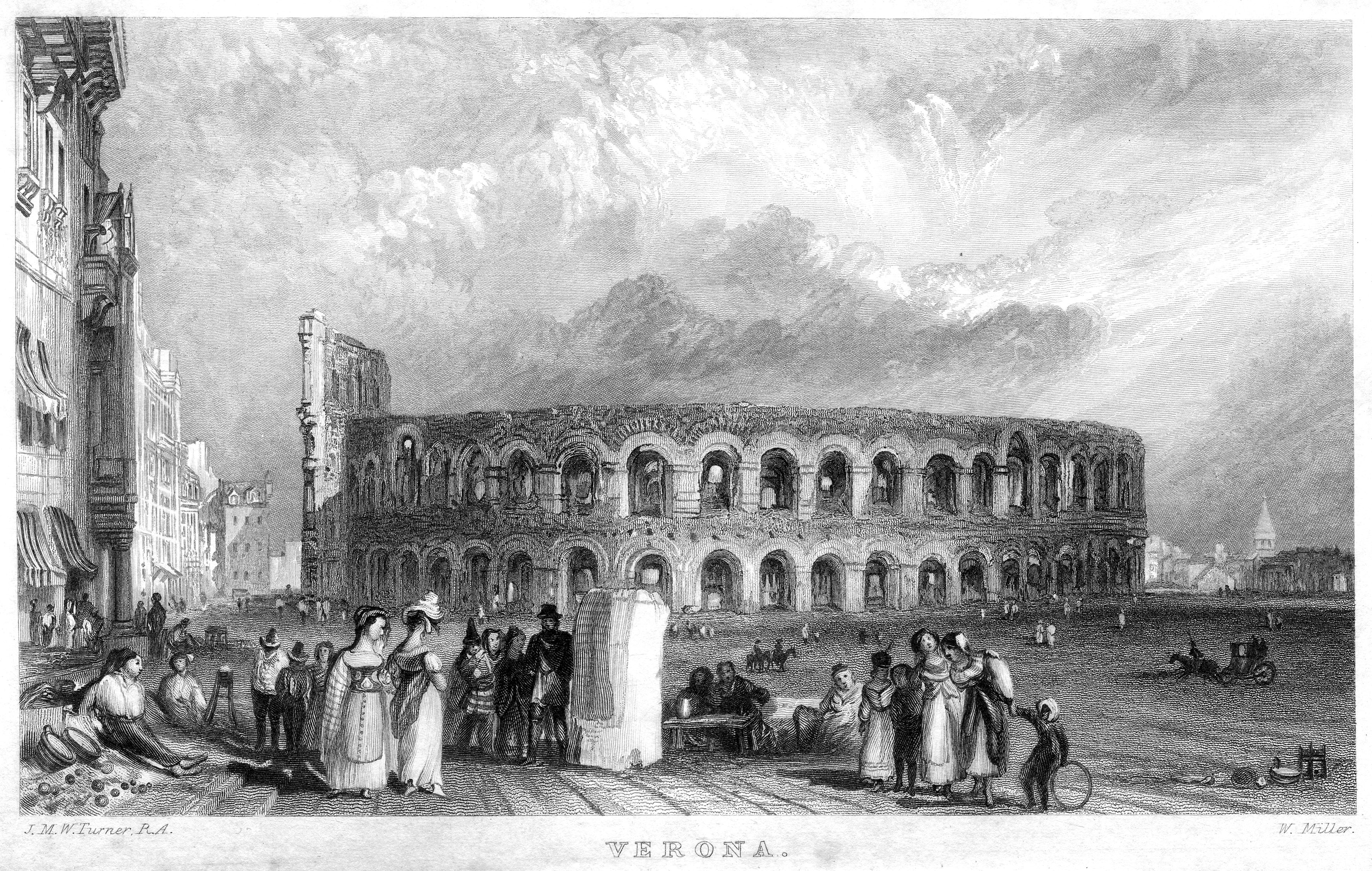 Verona (Rawlinson 530) engraving by William Miller after Turner, published in The Miscellaneous Prose Works of Sir Walter Scott, Bart. Embellished with Portraits, Frontispieces, Vignette Titles and Maps. The Designs of the Landscapes from Real Scenes by J.M.W. Turner, R.A.. Edinburgh: Robert Cadell, Edinburgh; Whitaker, Arnot, and Company, London; John Cumming, Dublin 1834 - 1836